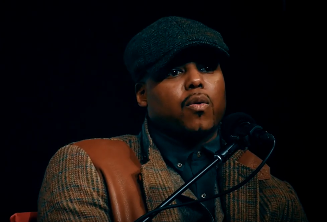 Titus Kaphar at CitizenUCon17 - Reckoning With History - Panel Discussion